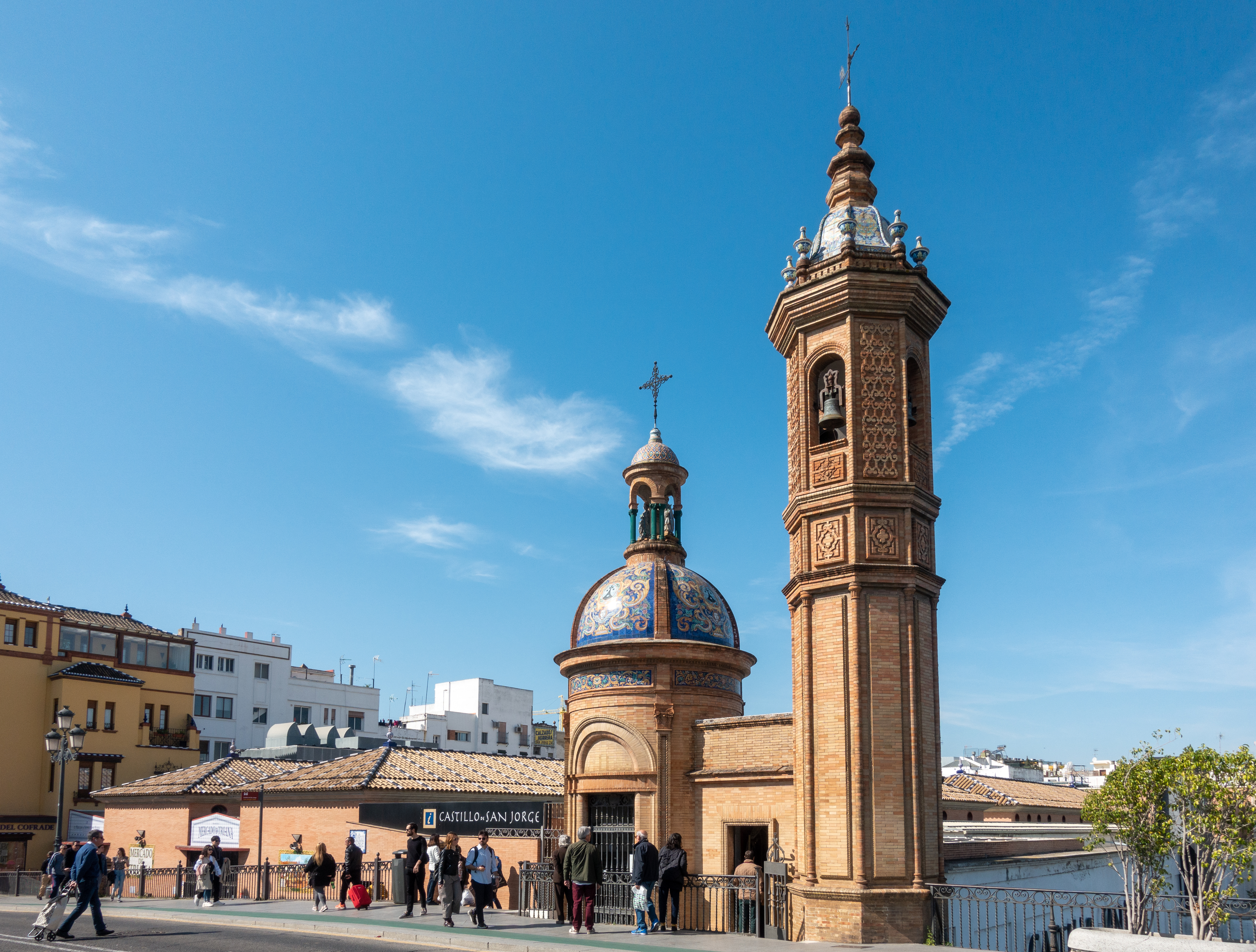 San Jorge Castle (Seville)